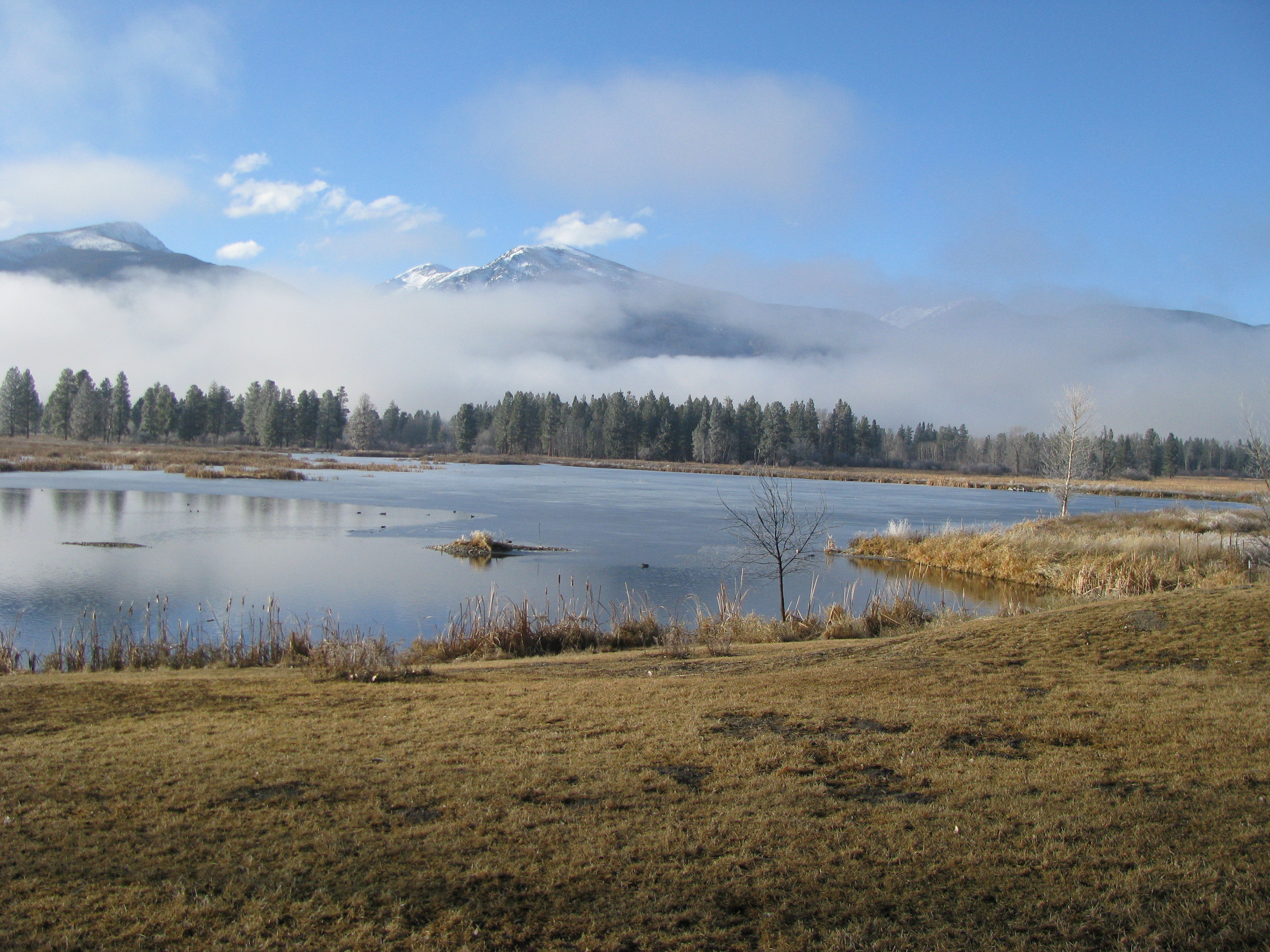 Ice fog hanging over Bitterroot River at Lee Metcalf National Wildlife Refuge. Credit: Bob Danley / USFWS